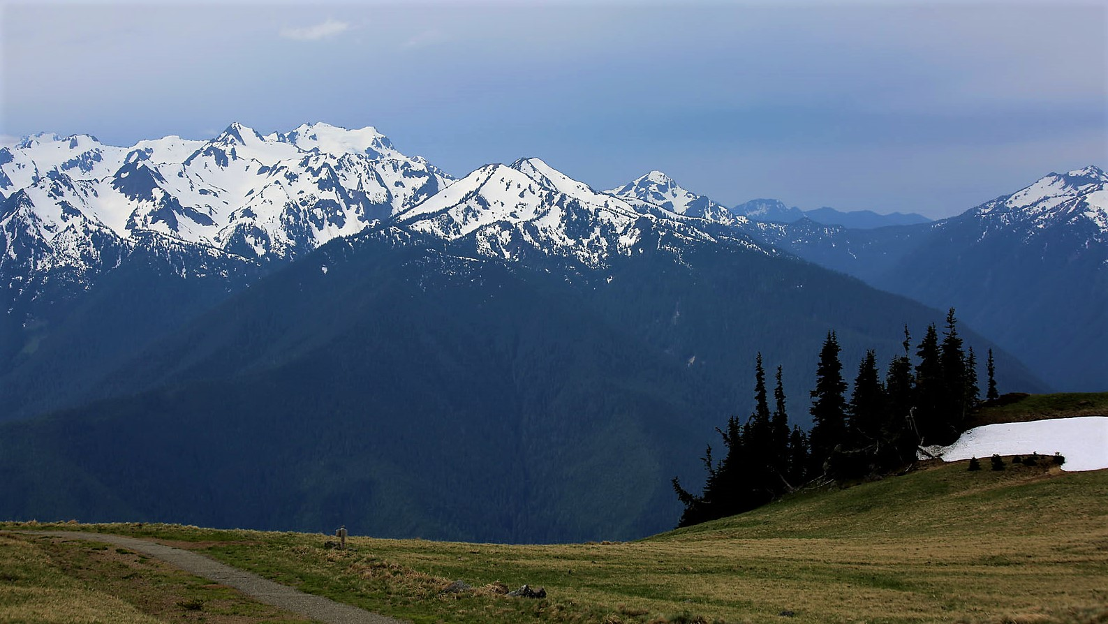 Mount Fitzhenry from Hurricane Ridge on the Olympic Peninsula